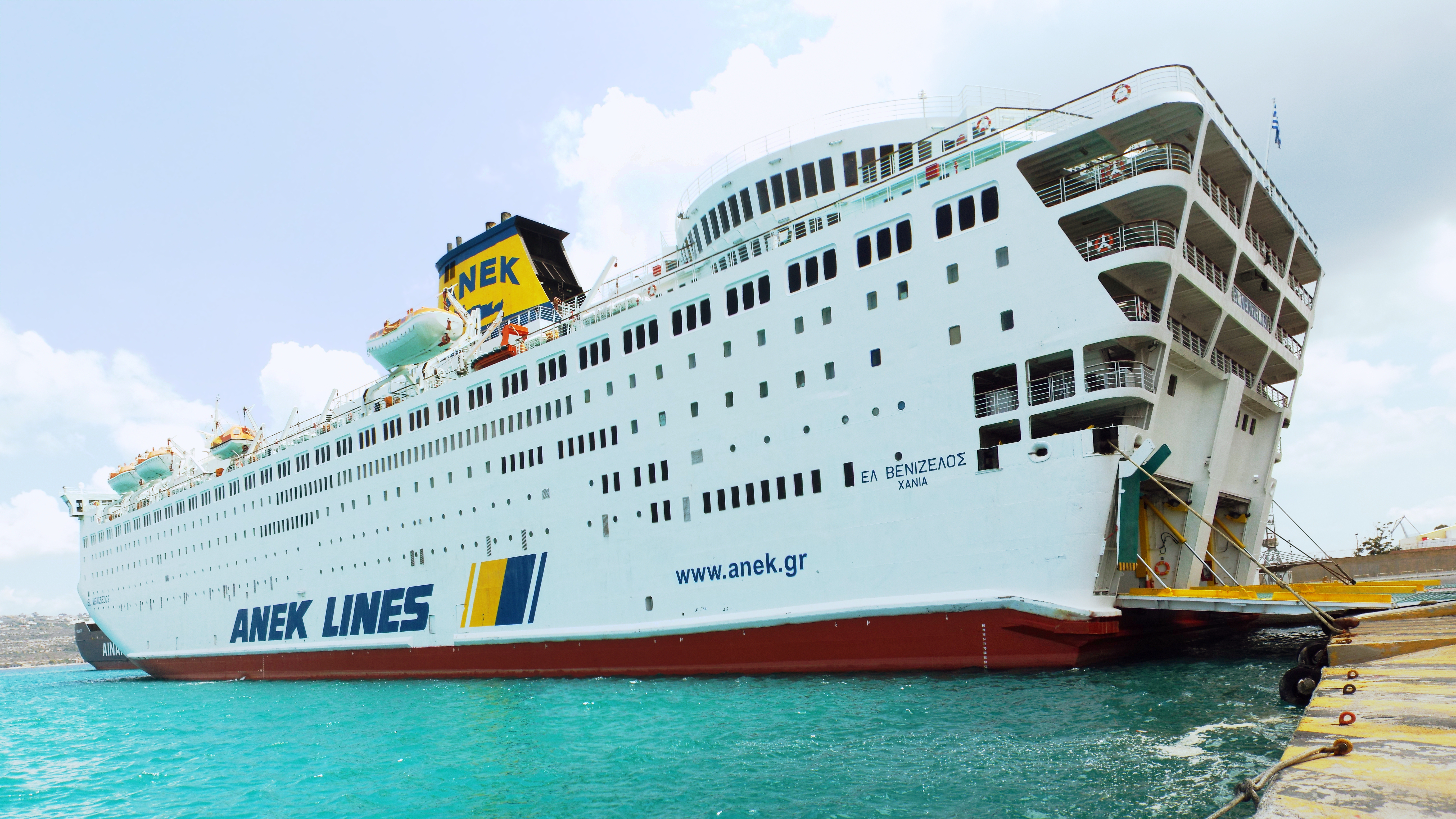 Passenger and commercial port of Souda (Crete) Ship "El. Venizelos".